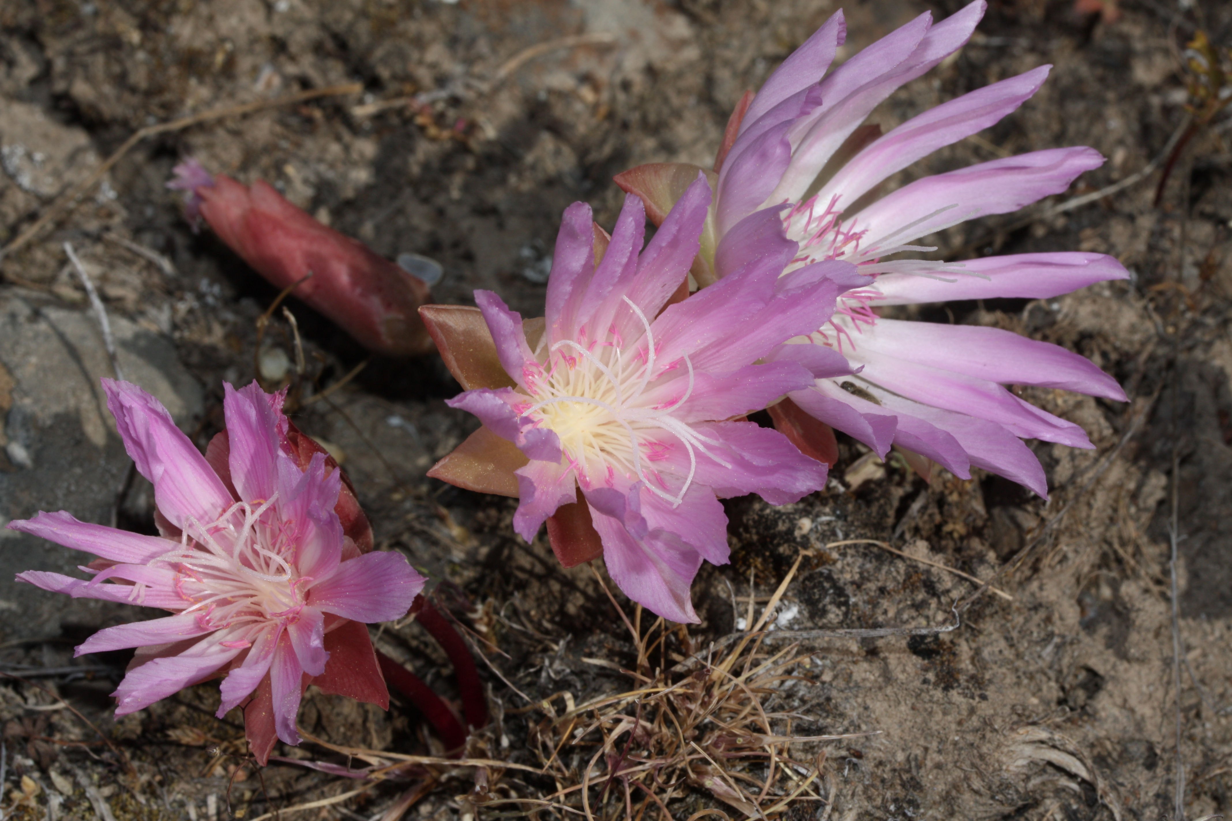 Bitter-root